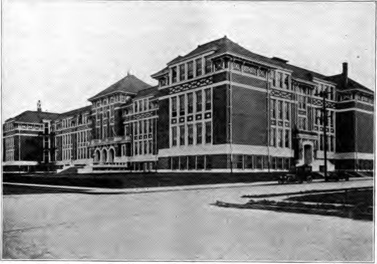 Jefferson HS in Portland, Oregon circa 1910–1920